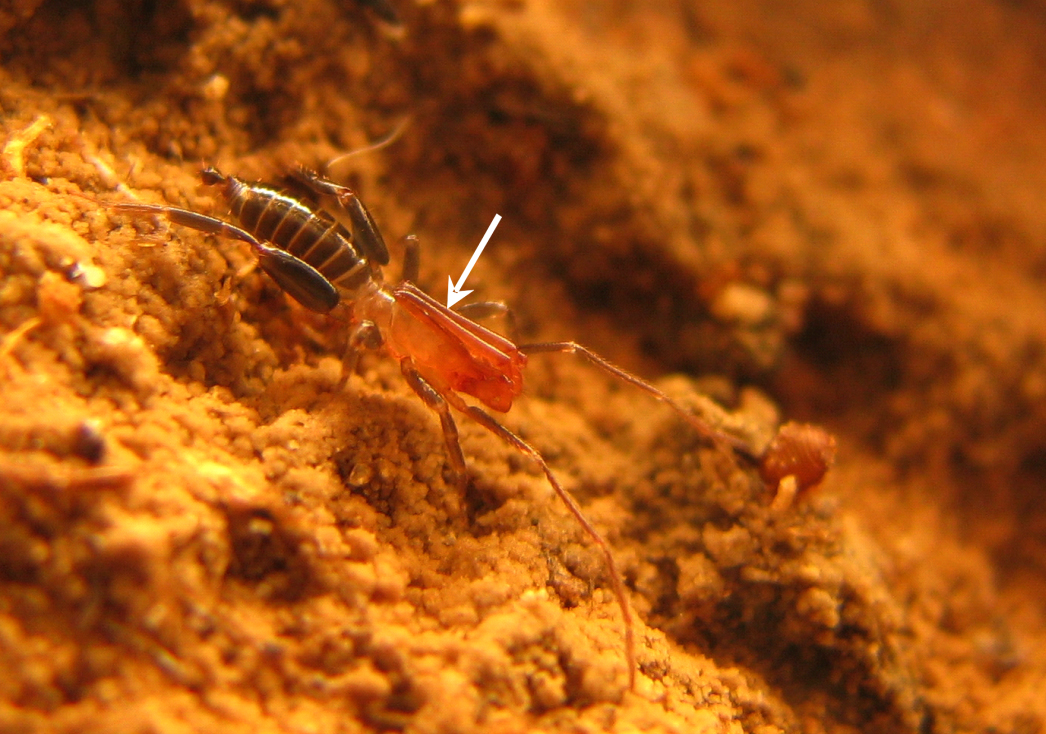 Rowlandius potiguar sp.nov., male from Felipe Guerra, Rio Grande do Norte, Brazil. Note the extremely elongated pedipalp (arrow).